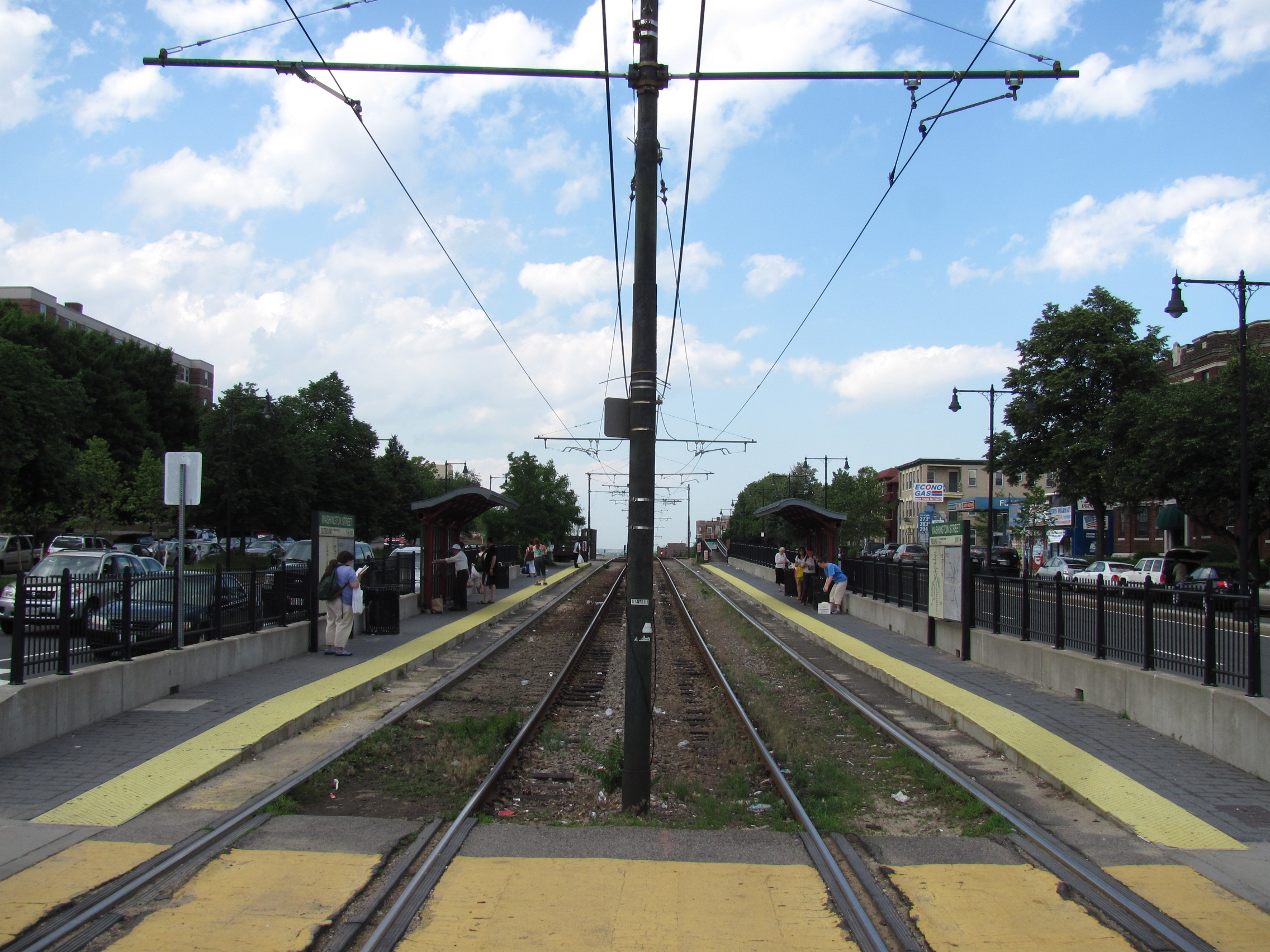 Washington Street MBTA station, Brighton Massachusetts, June 2010